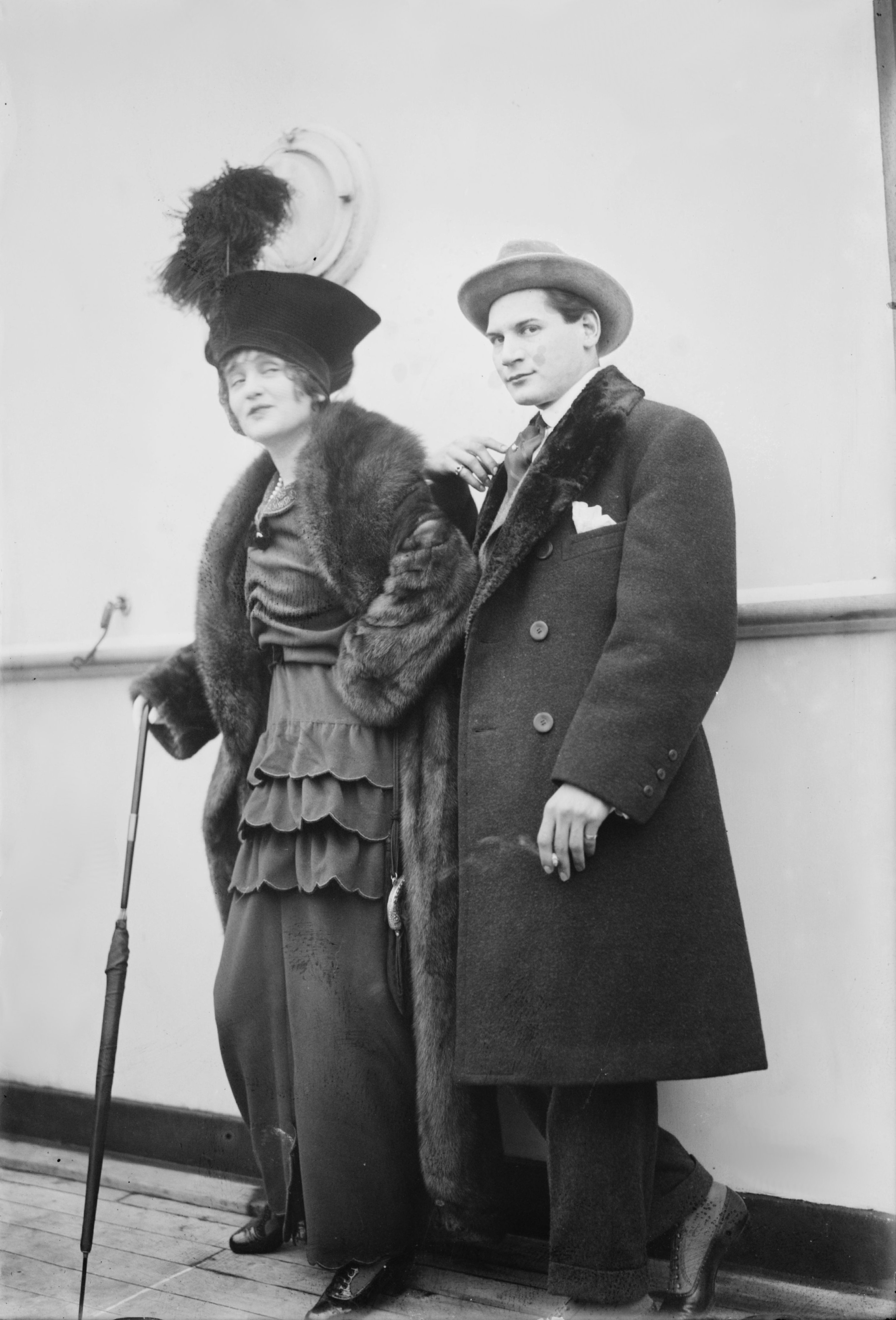 Gaby Deslys (1881-1920) and Harry Pilcer